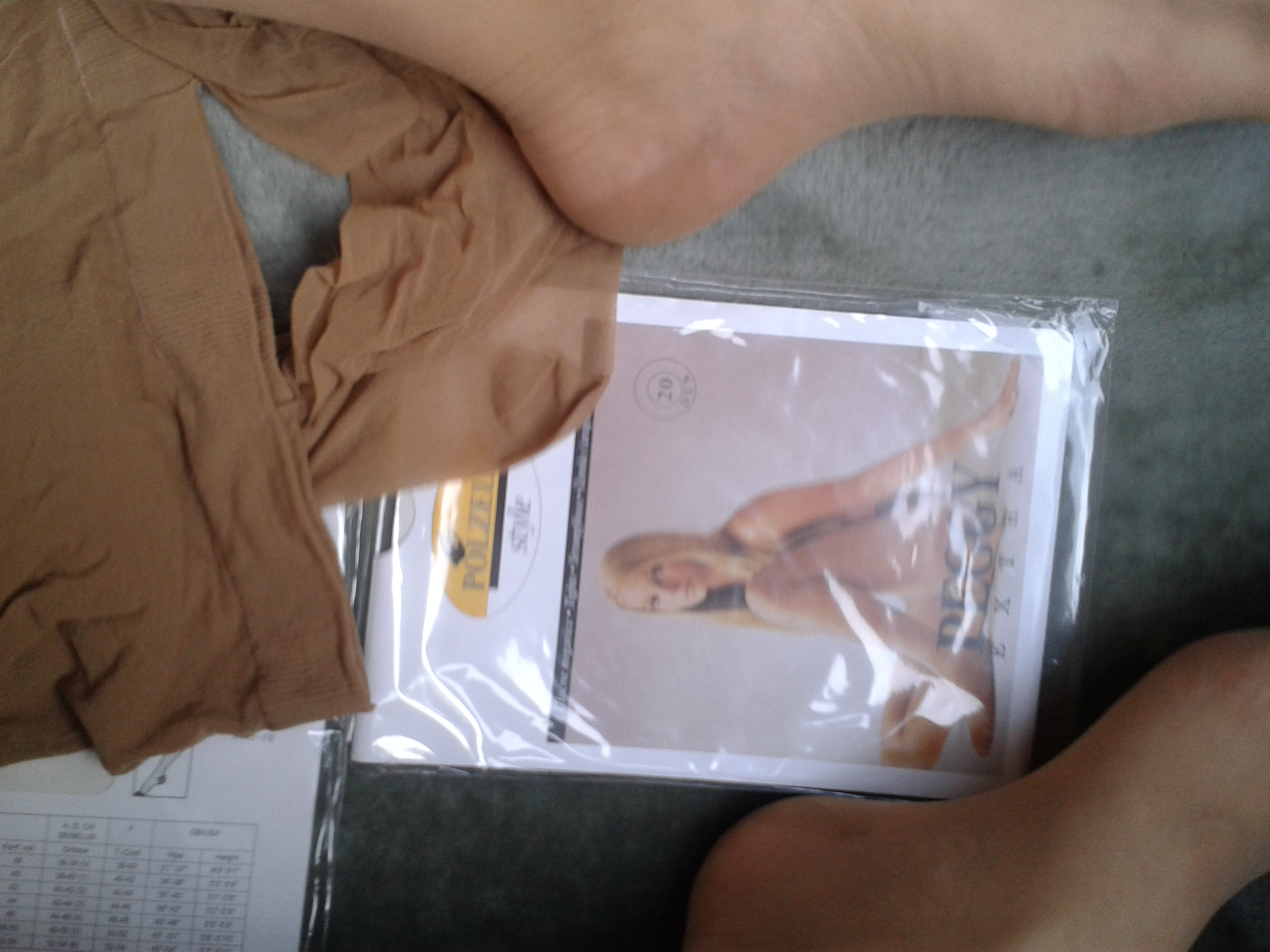 Tribute to the 50th Anniversary of the first Yu Pantyhose, the first issue in 1969, happily buying them from 1974 till now.